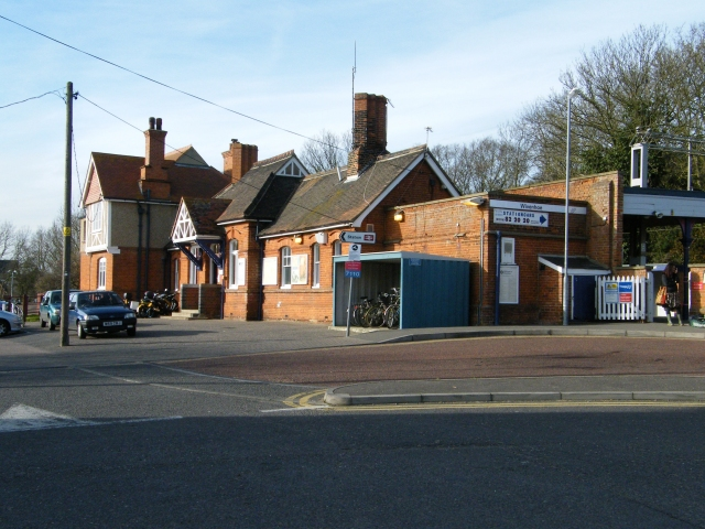 Wivenhoe Railway Station Wivenhoe Station from the south (London bound) side. The car park is off to left and is the start of the Wivenhoe Trail to Colchester.